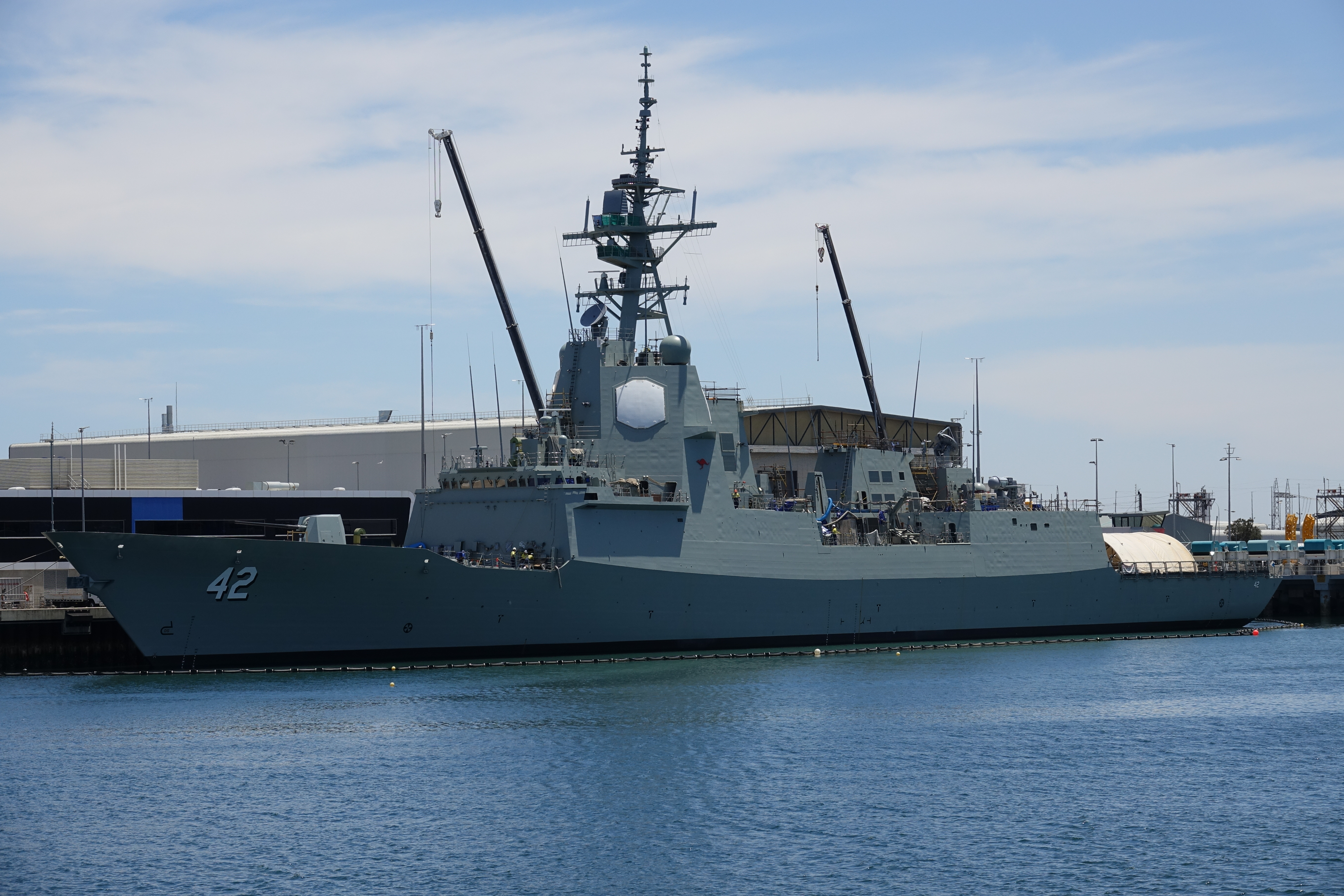 Hobart-class destroyer being fitted out/built in South Australia.